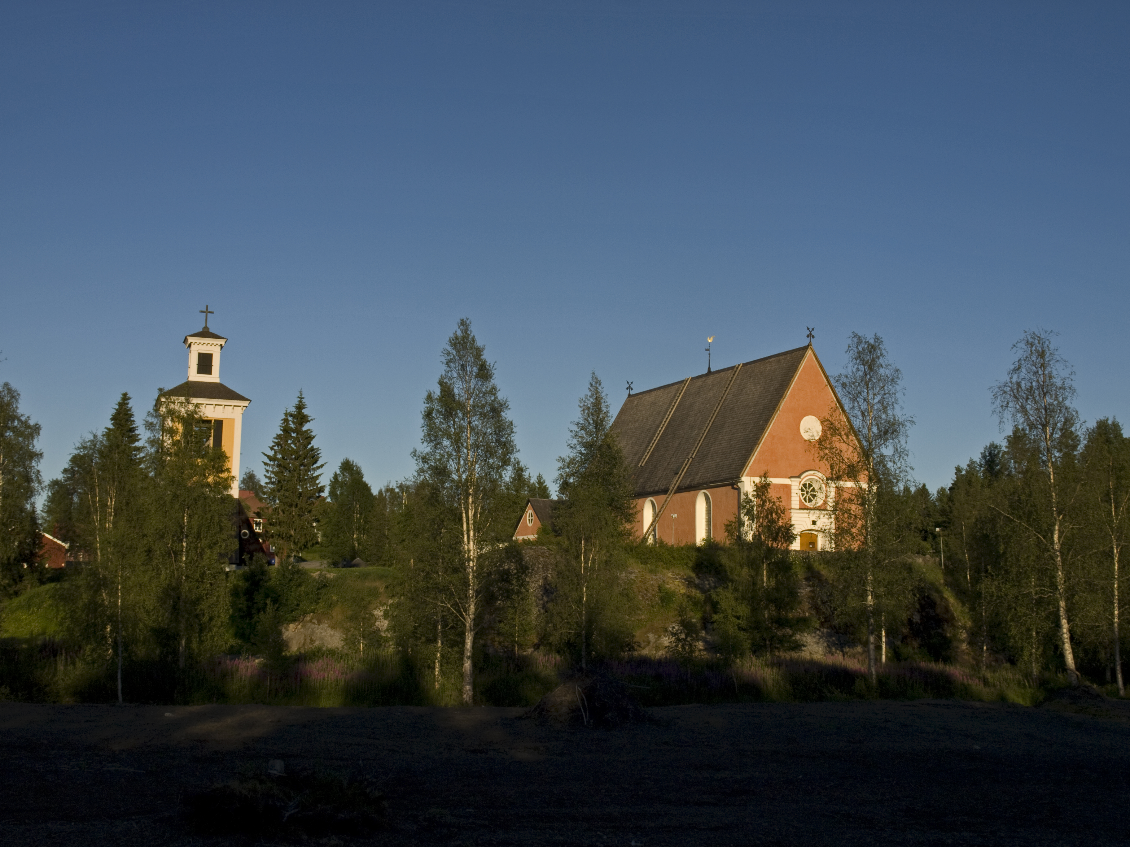 Church ensemble of Bygdea